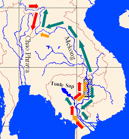 Distribution and migration pathways of Pangasianodon hypophthalmus, based on information from and N. Van Zalinge, Lieng Sopha, Ngor Peng Bun, Heng Kong, J. Jørgensen: Status of the Mekong Pangasianodon hypophthalmus resources, with special reference to the stock shared between Cambodia and Viet Nam. In: MRC Technical Paper. Nr. 1, Mekong River Commission, Phnom Penh 2002, ISSN 1683-1489 ( orange - March to May dark green - May to September red - October to February shaded region: spawning region of the southern Mekong population between Khone Falls and Kratie